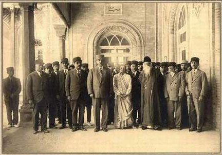 Rabindranath Tagore meets members of Iran's parliament. Image is from early 1930's in Tehran's Majles.